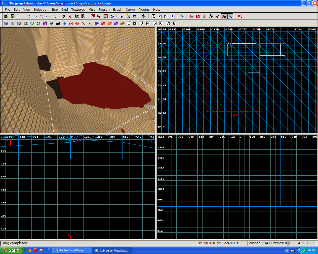 GtkRadiant 1.6.3 running under MS Windows XP SP3 OS